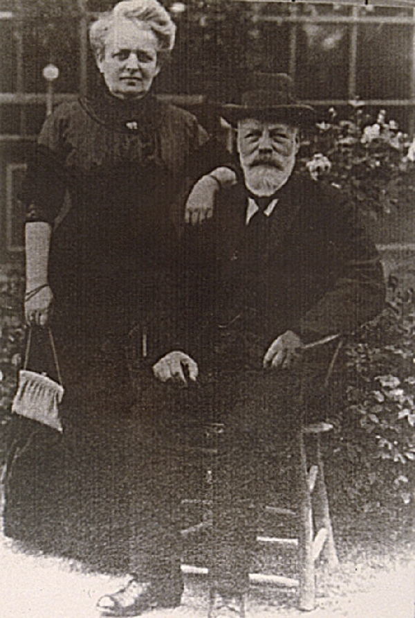 Rabbi Dr Maier (or: Meier) APPEL and his wife Anna née Willstätter in Karlsruhe, in or before 1910